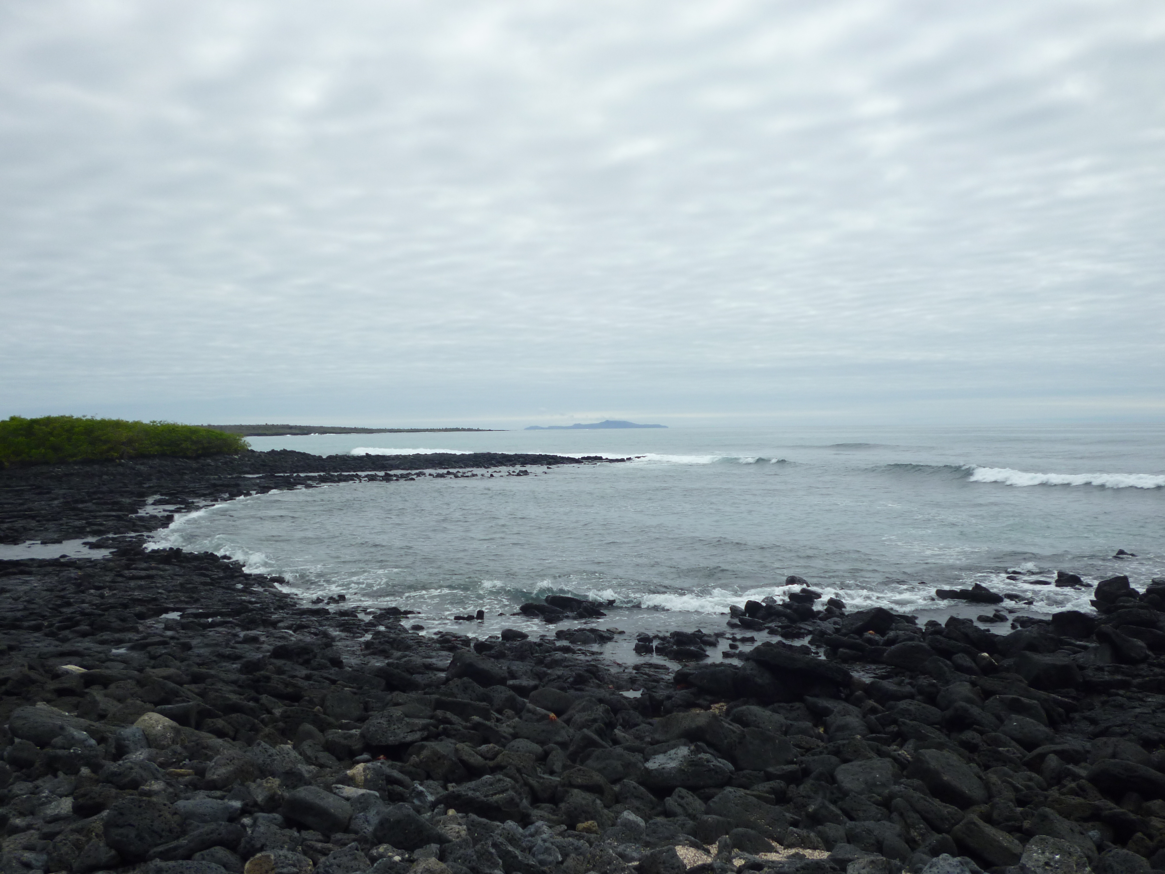 Volcanic Rocks at Tortuga Bay - Island of Santa Cruz - Galapagos Photography by David Adam Kess